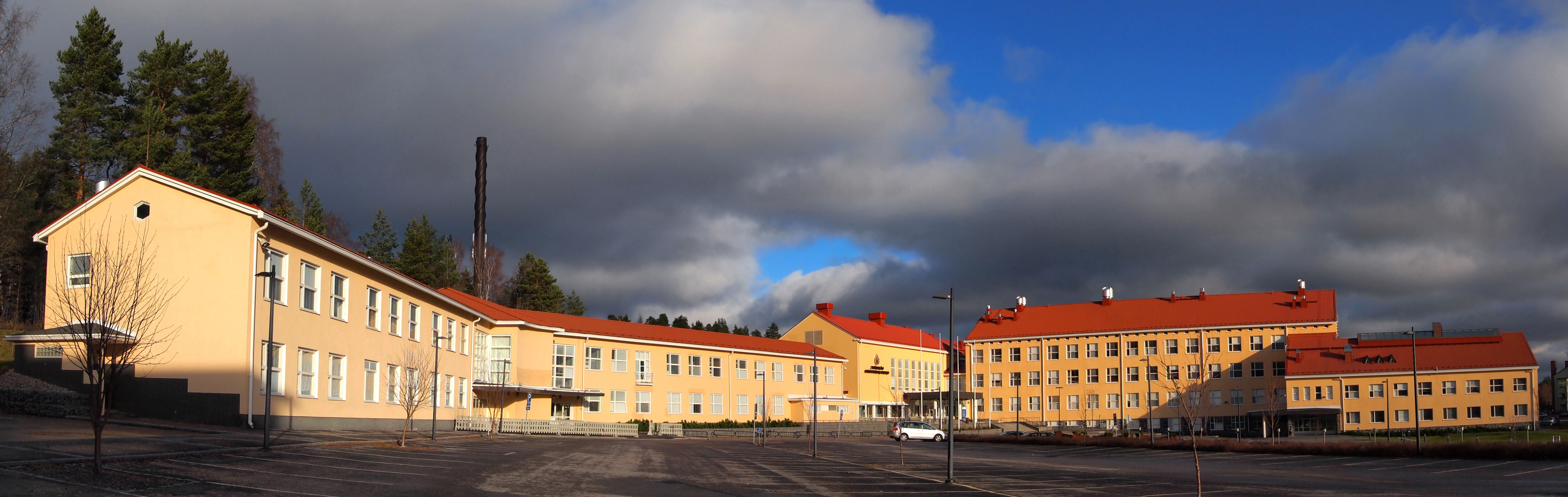 Applied Sciences school in Nisula, Jyväskylä. This photograph was taken with an Olympus E-PL1